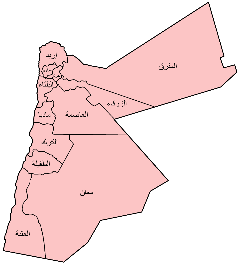 Map of the governorates of Jordan in Arabic (local language), using names from the Arabic Wikipedia. Made by User:Golbez.